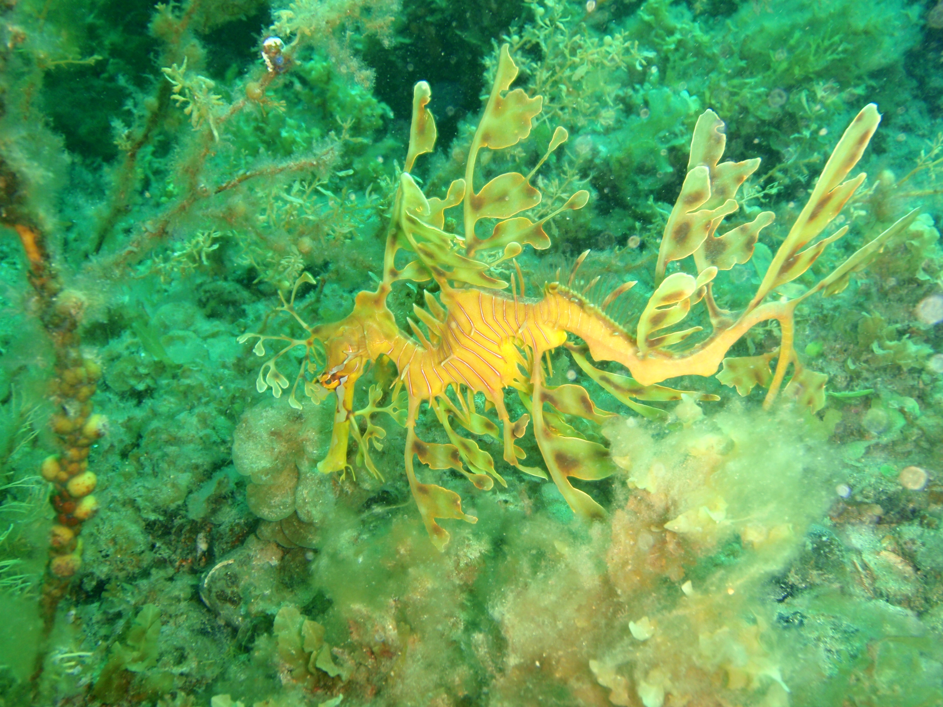 Leafy sea dragon Phycodurus eques at Rapid Bay Jetty, Gulf St Vincent, South Australia